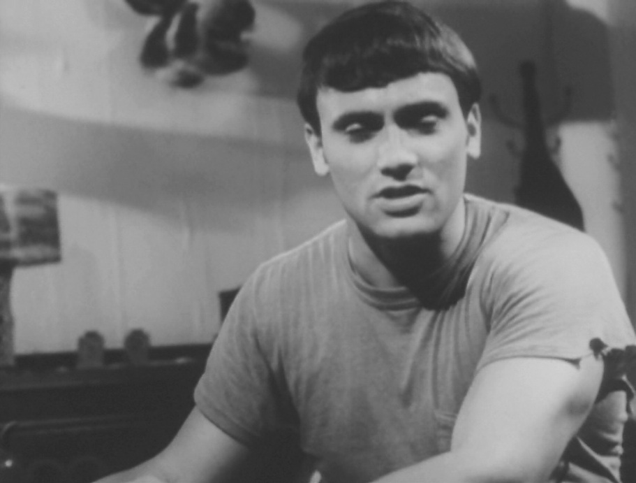 Keith Wayne as Tom in Night of the Living Dead